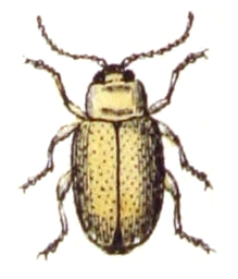 Longitarsus pratensis, from Calwer's Käferbuch, Table 43, Picture 20. Taxonomy was updated to 2008, using mostly the sites Fauna Europaea and BioLib. Please contact Sarefo if the determination is wrong!